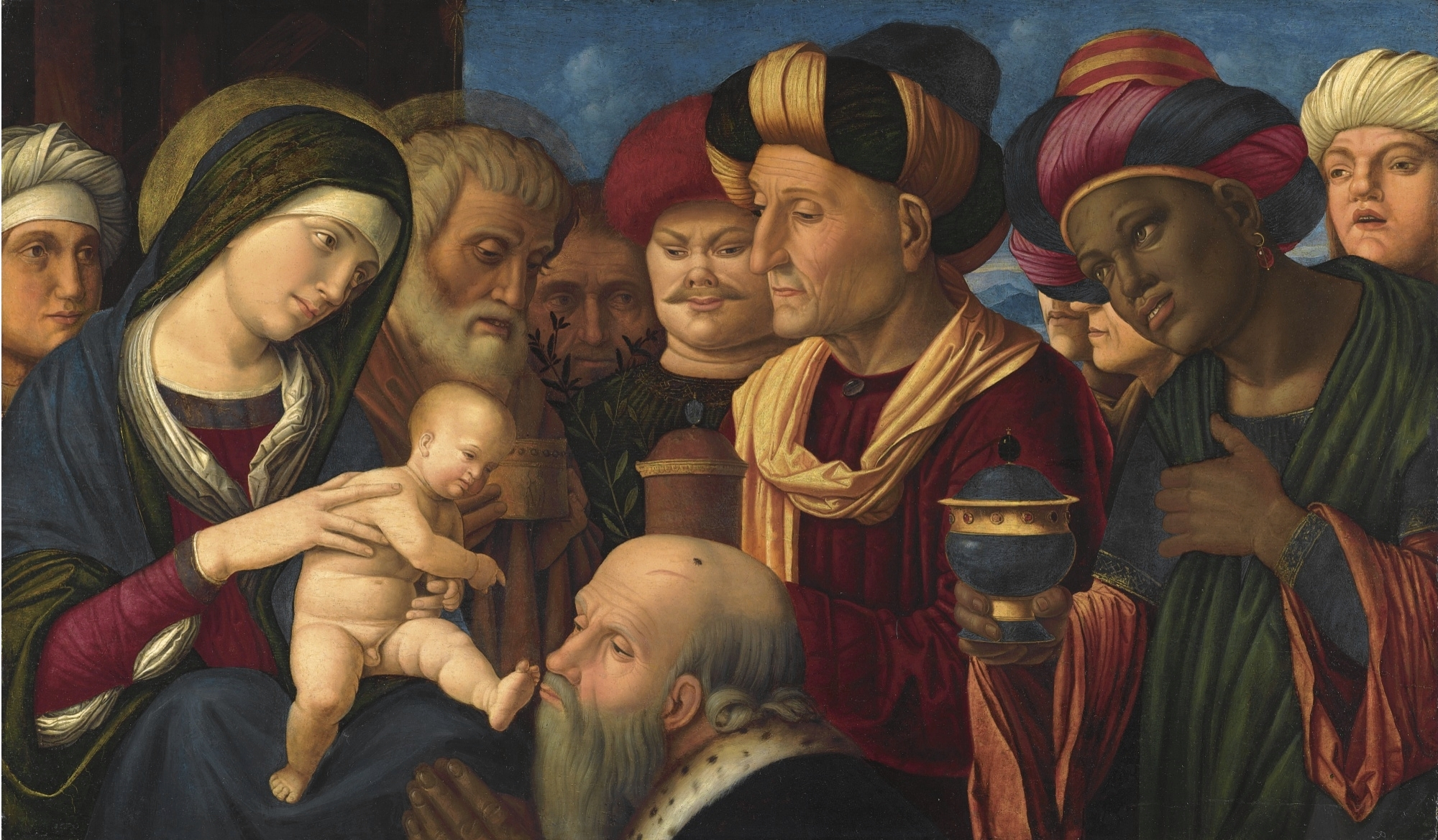 FRANCESCO di Simone da Santacroce, THE ADORATION OF THE MAGI, 1500-1508, Sotheby's